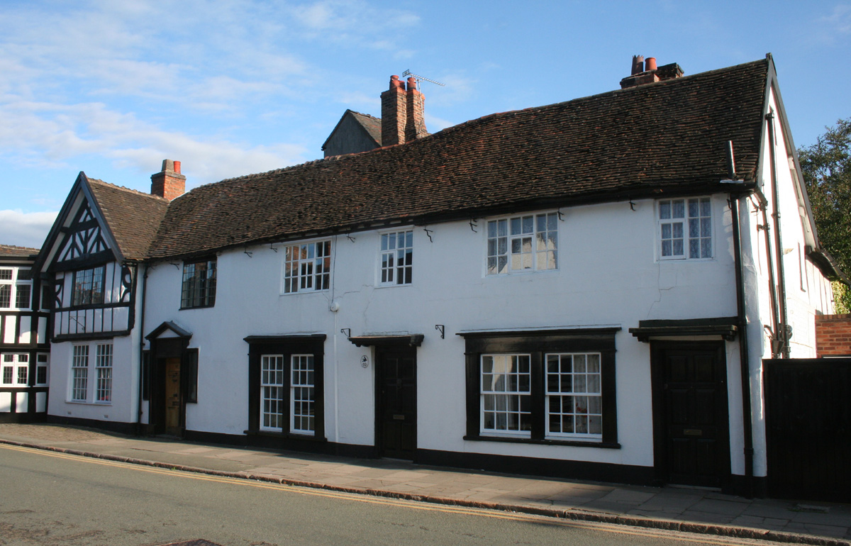 69 & 71 Hospital Street, Nantwich, Cheshire; 67 Hospital Street (part of Sweetbriar Hall) is also visible on the left